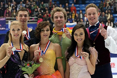 The ice dancing podium at the 2013 Cup of China. From left: Ekaterina Bobrova / Dmitri Soloviev (2nd), Nathalie Péchalat / Fabian Bourzat (1st), Madison Chock / Evan Bates (3rd).